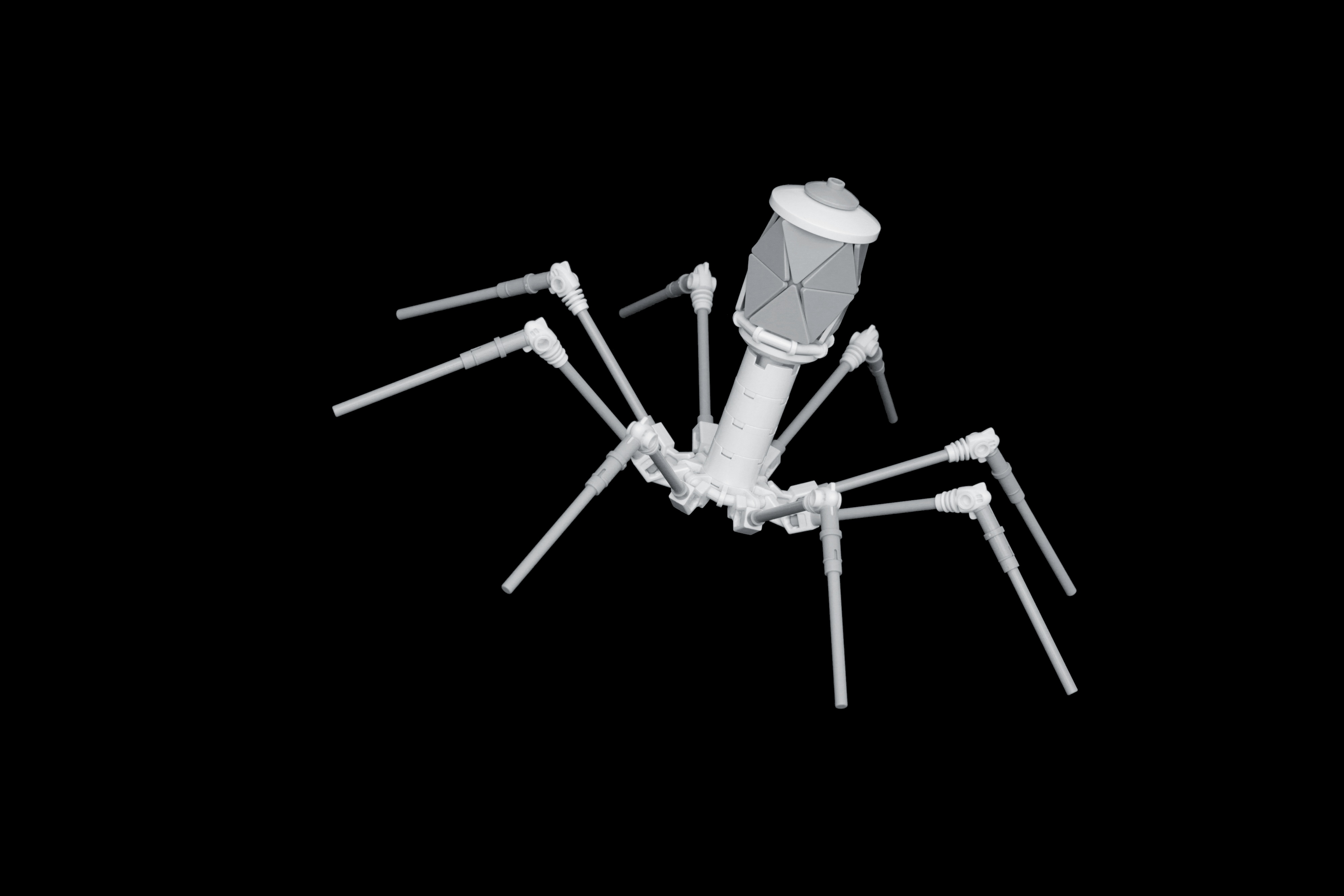 My previous phage was a bit of a free build from memory, this one tries to stay a little closer to the real thing.